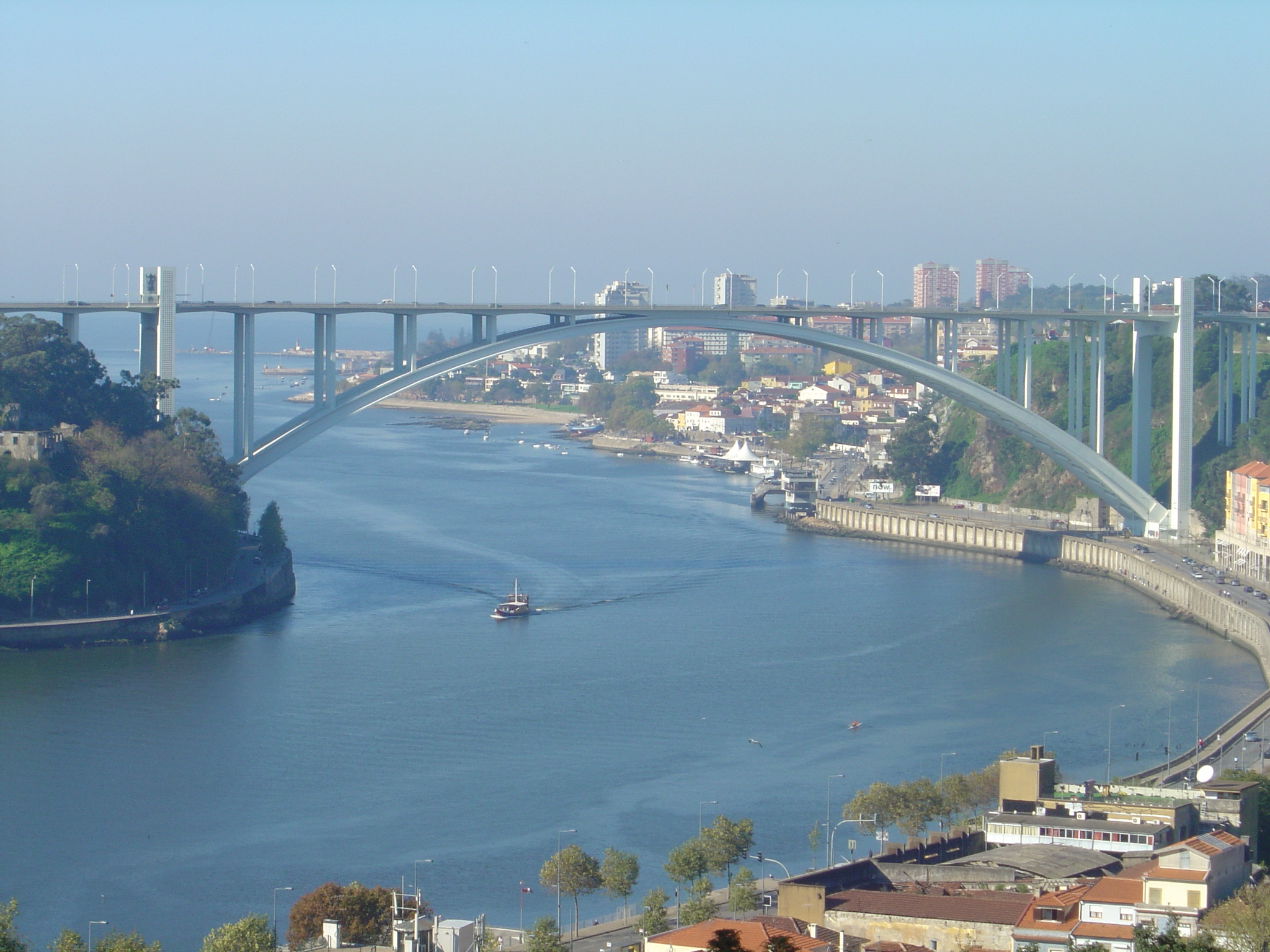 Arrábida Bridge as seen from the Gardens of the Cristal Palace, Porto, Portugal.